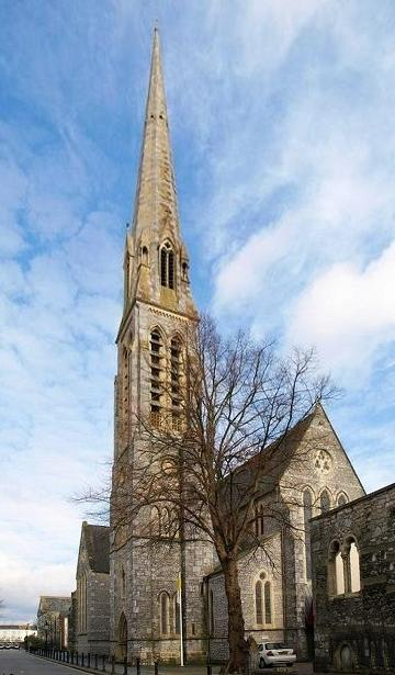 Roman Catholic cathedral of SS Mary and Boniface, Plymouth, Devon, seen from the west from Wyndham Street West